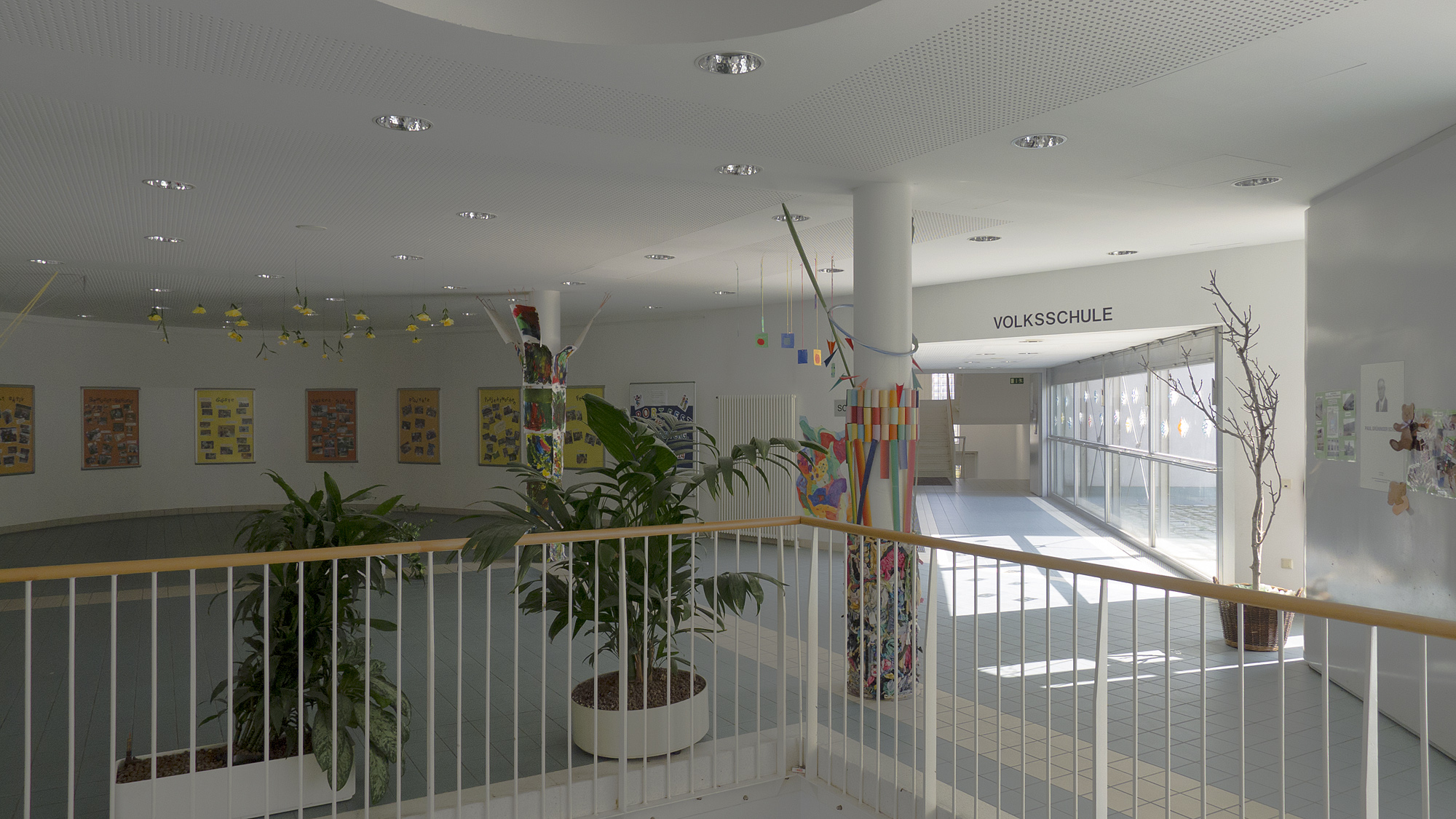 High school Paul-Grüninger-Schule in Vienna 21